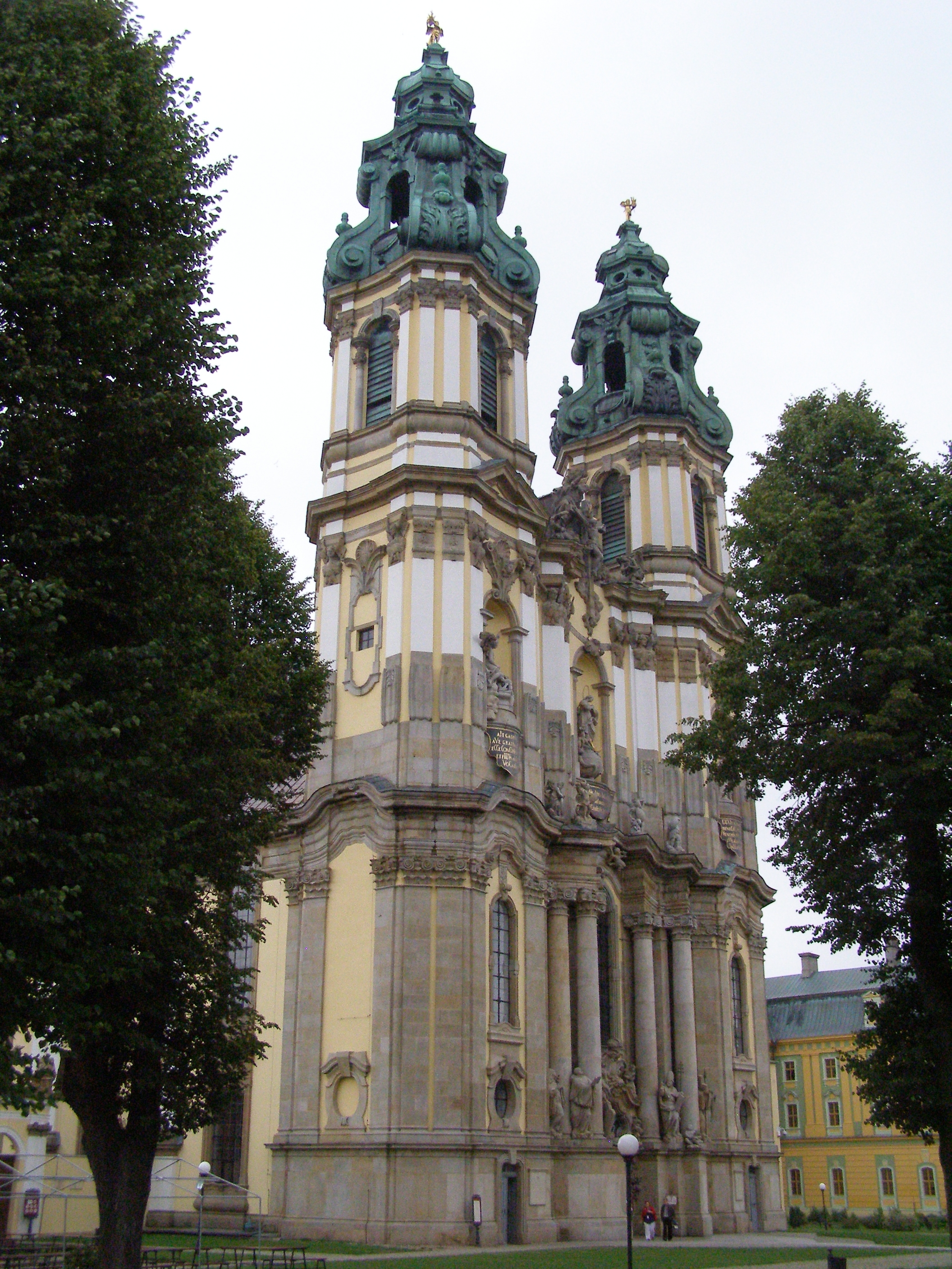 Krzeszów - basilica of the Assumption of Virgin Mary